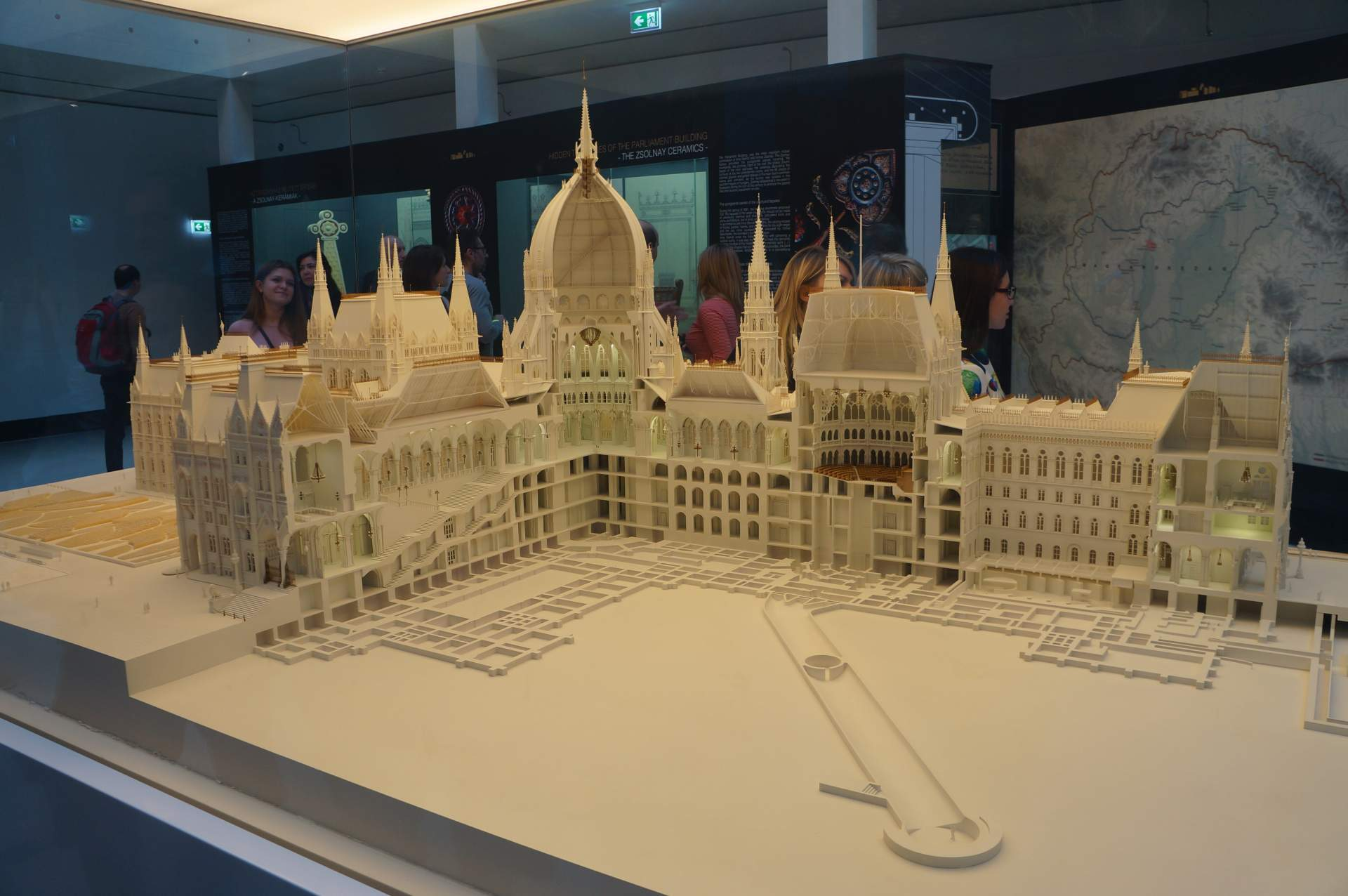 The model of Budapest Parlament from the Budapest Parlament museum.